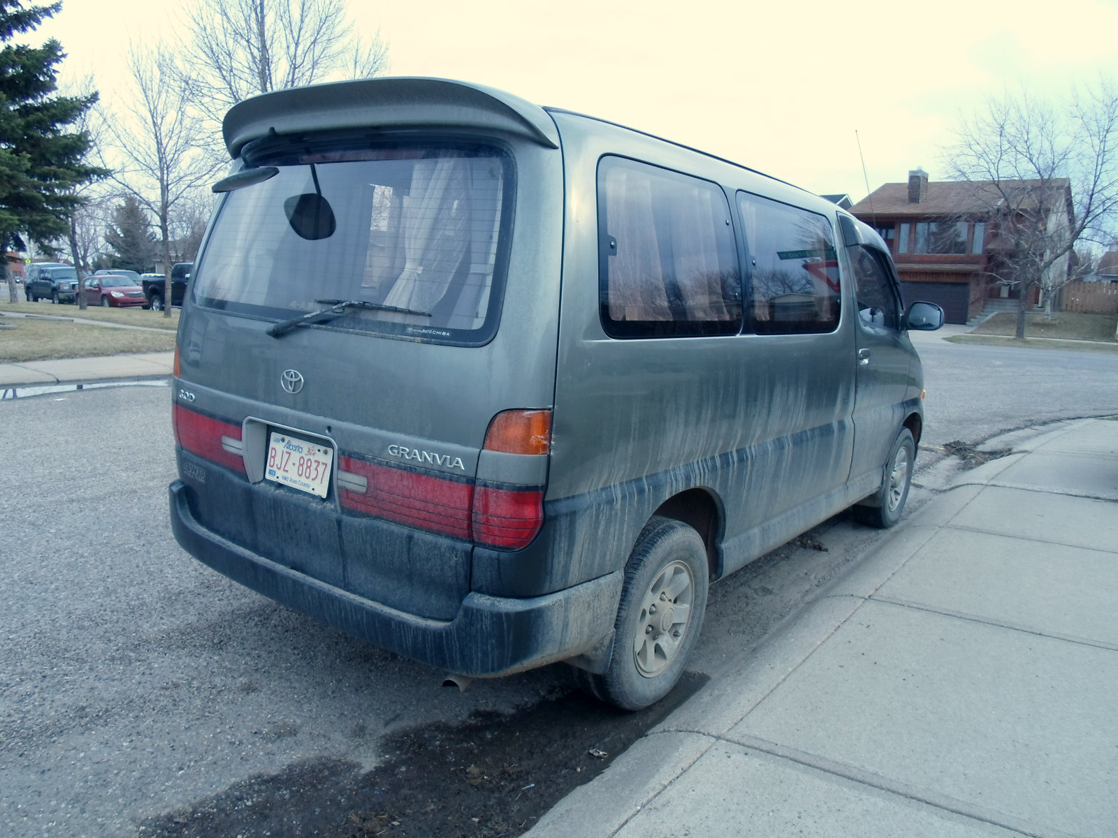 A right hand drive Toyota Granvia 30D van imported from Japan.